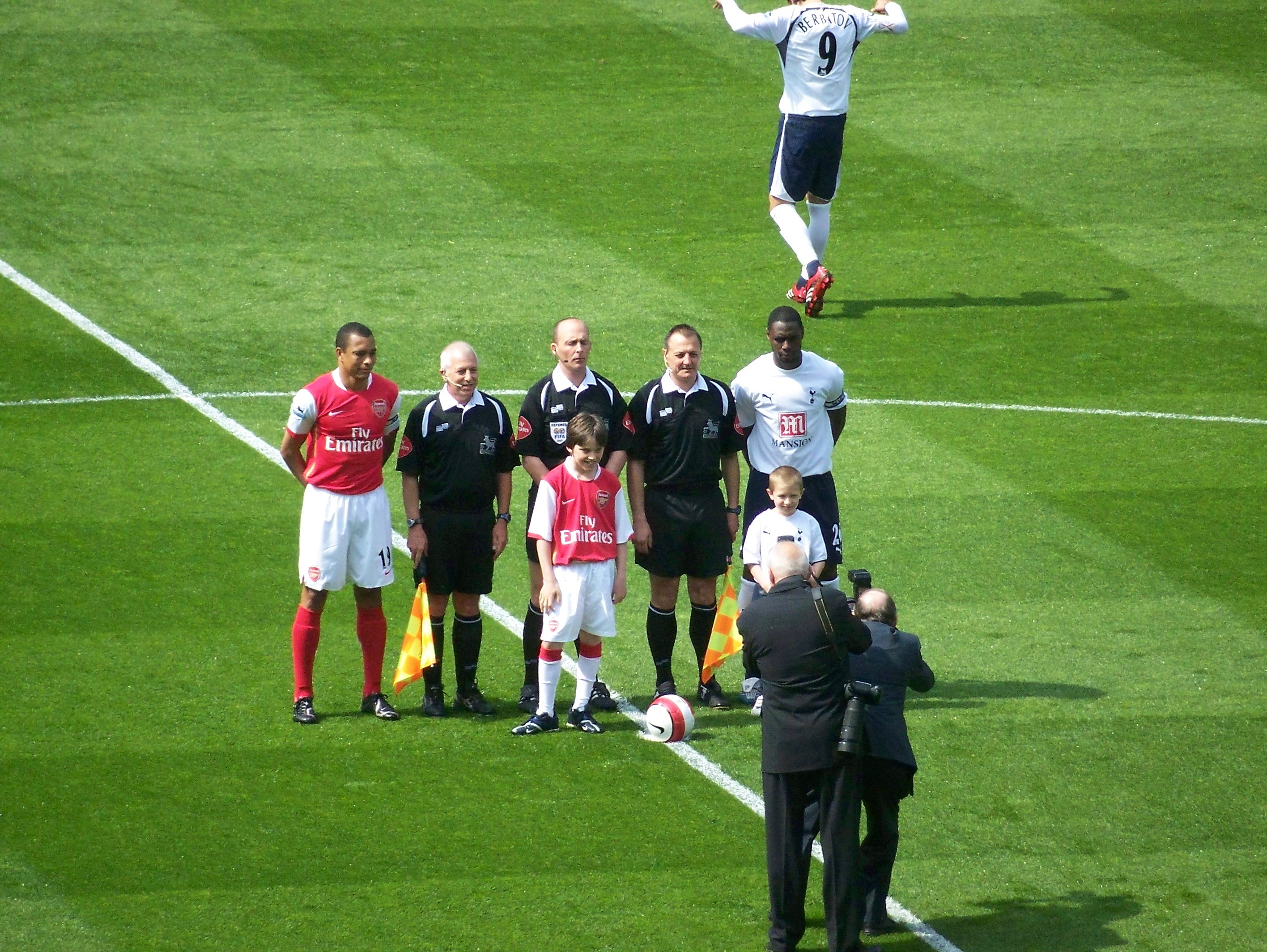 Pre-match photographs ahead of the North London Derby, at White Hart Lane, on 21st April 2007. Pictured are the captains of both teams; Gilberto of Arsenal(left) and Ledley King of Tottenham Hotspur (right)